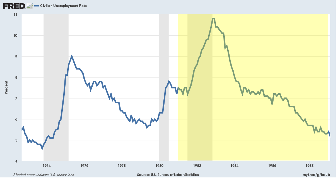 Civilian unemployment rate with Reagan presidency highlighted in yellow and recessions shaded